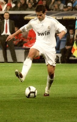 Fernando Gago of Real Madrid